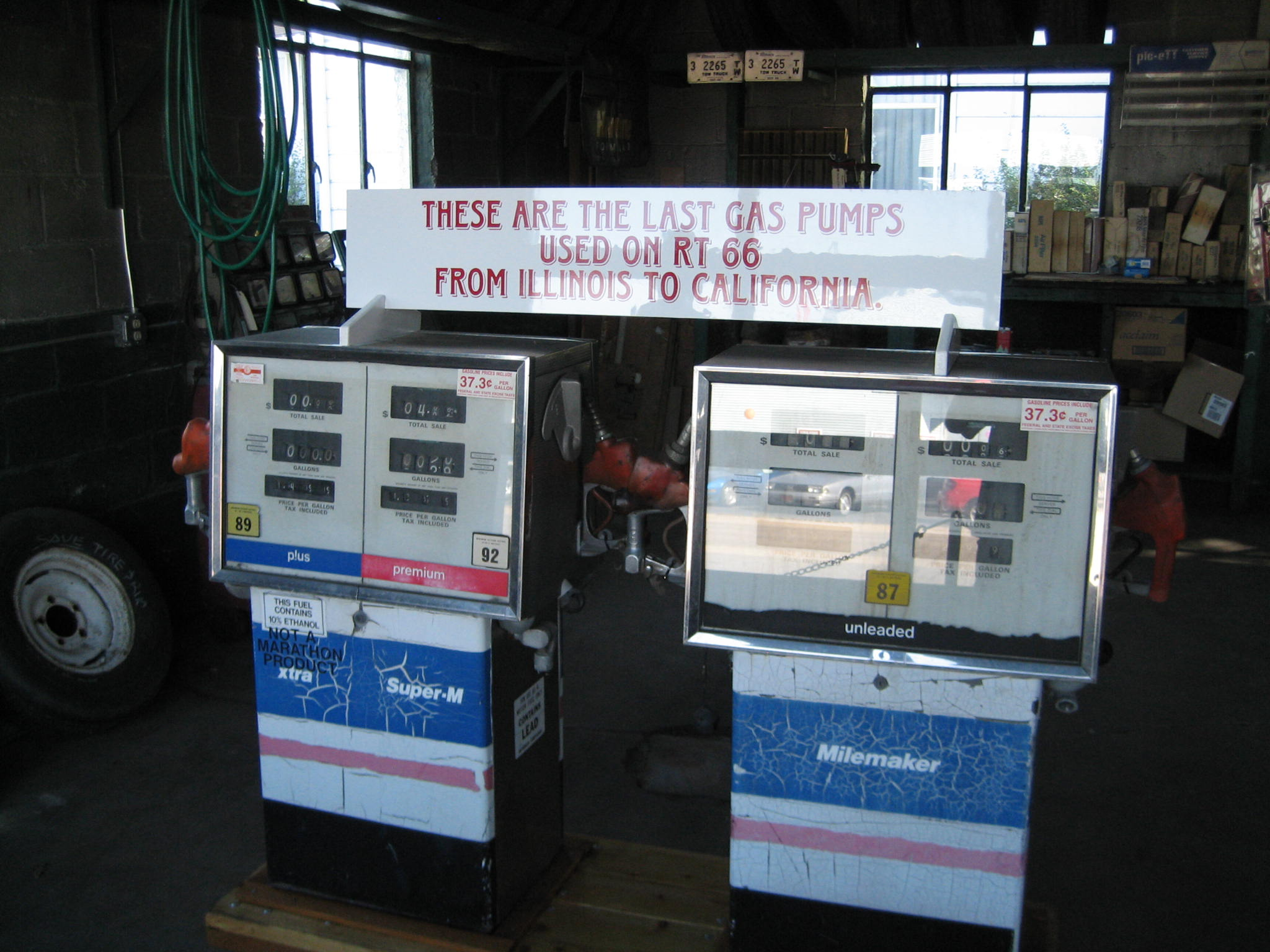 Ambler's Texaco Gas Station, Dwight, Illinois, USA, along historic U.S. Route 66. Late 20th century gas pumps.